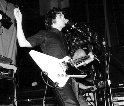 Pär Wiksten performing with The Wannadies at Manchester Academy on 9th March 2000. Image © Emma Farrer 2000 and used with her permission.